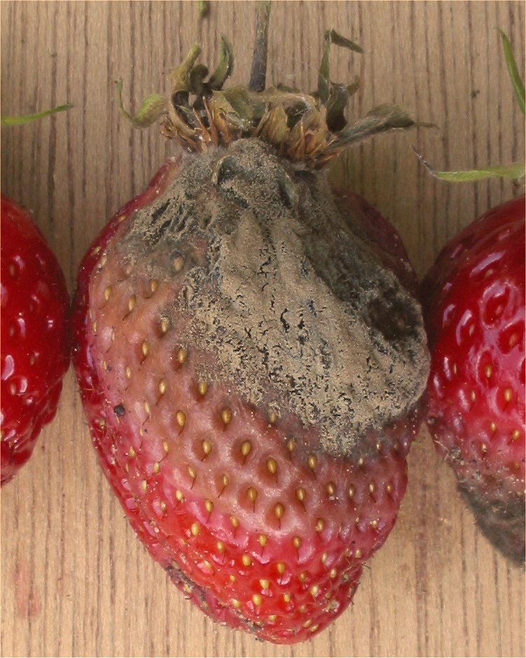 (Aardbei Lambada vruchtrot) strawberry fruit rot Botrytis cinerea